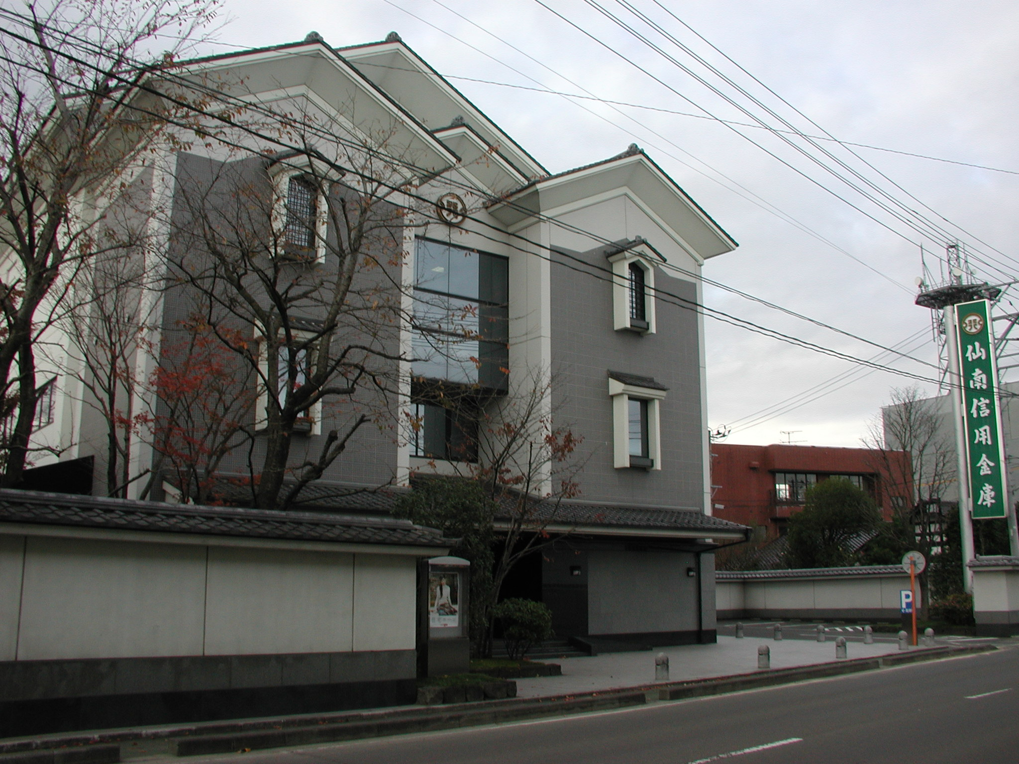 The Sennan Shinkin Bank Head shops